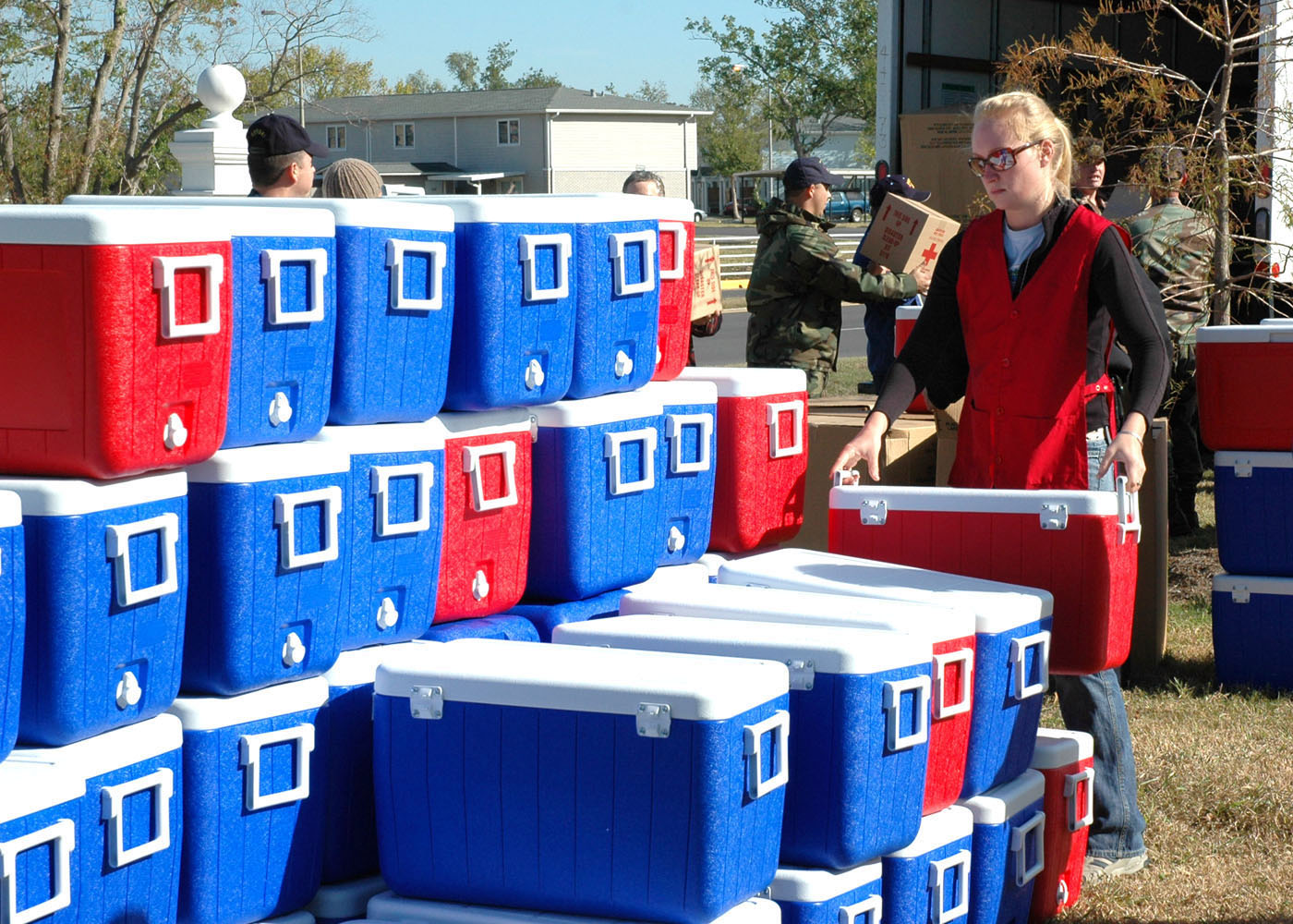 New Orleans (Dec. 13, 2005) – Molly Reagan, a volunteer with The American Red Cross, stacks coolers brought to New Orleans by The American Red Cross. Clean up kits, shovels, diapers and other goods are being distributed to government employees, service members and their families on board Naval Air Station Joint Reserve Base New Orleans. U.S. Navy photo by Photographer’s Mate 2nd Class William Townsend (RELEASED)